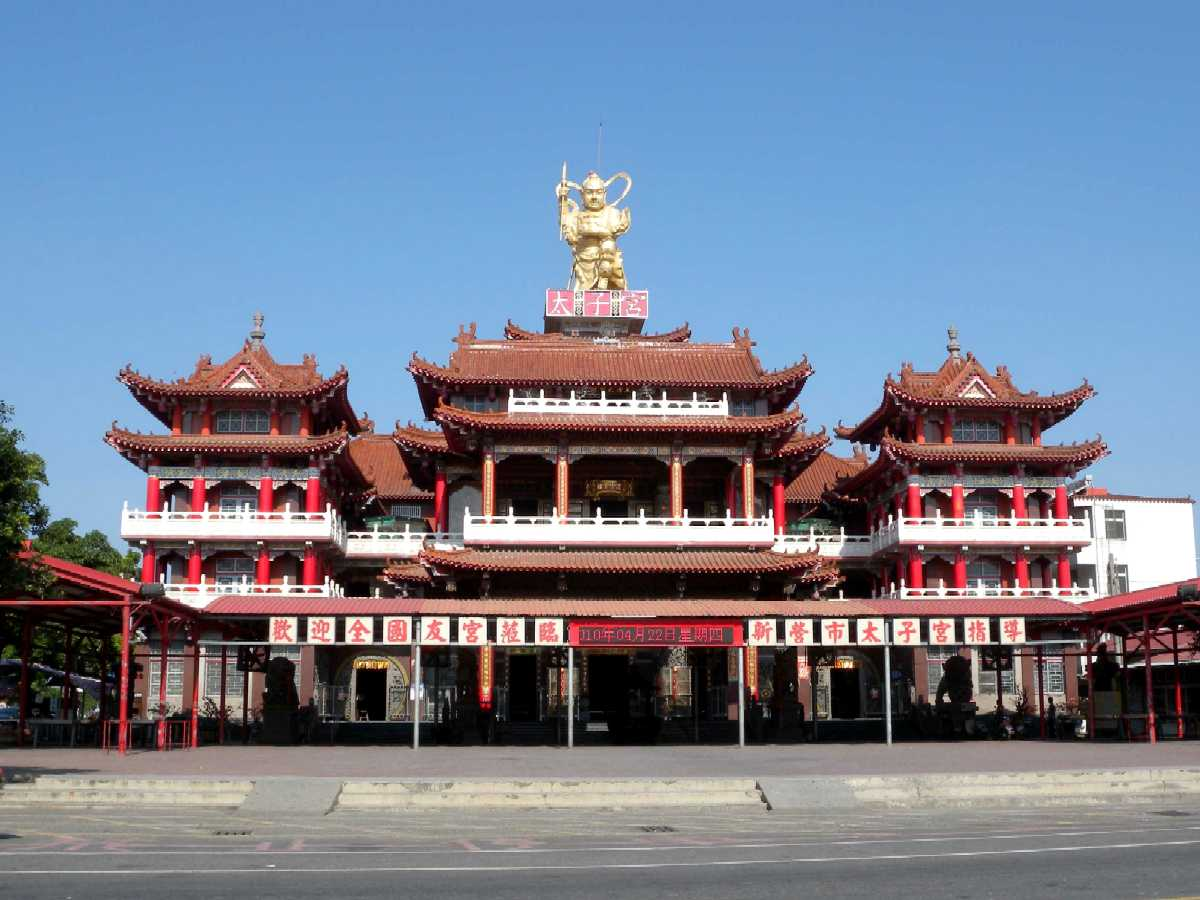 Sinying taizigong